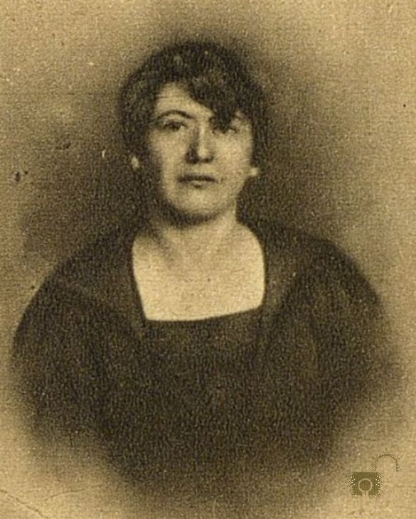 Evgenia Ratner, (1886, Smolensk — 1931, Butyrka prison, Moscow) — member of Central Committee of Socialist Revolutionists Party, victim of CheKa repressions